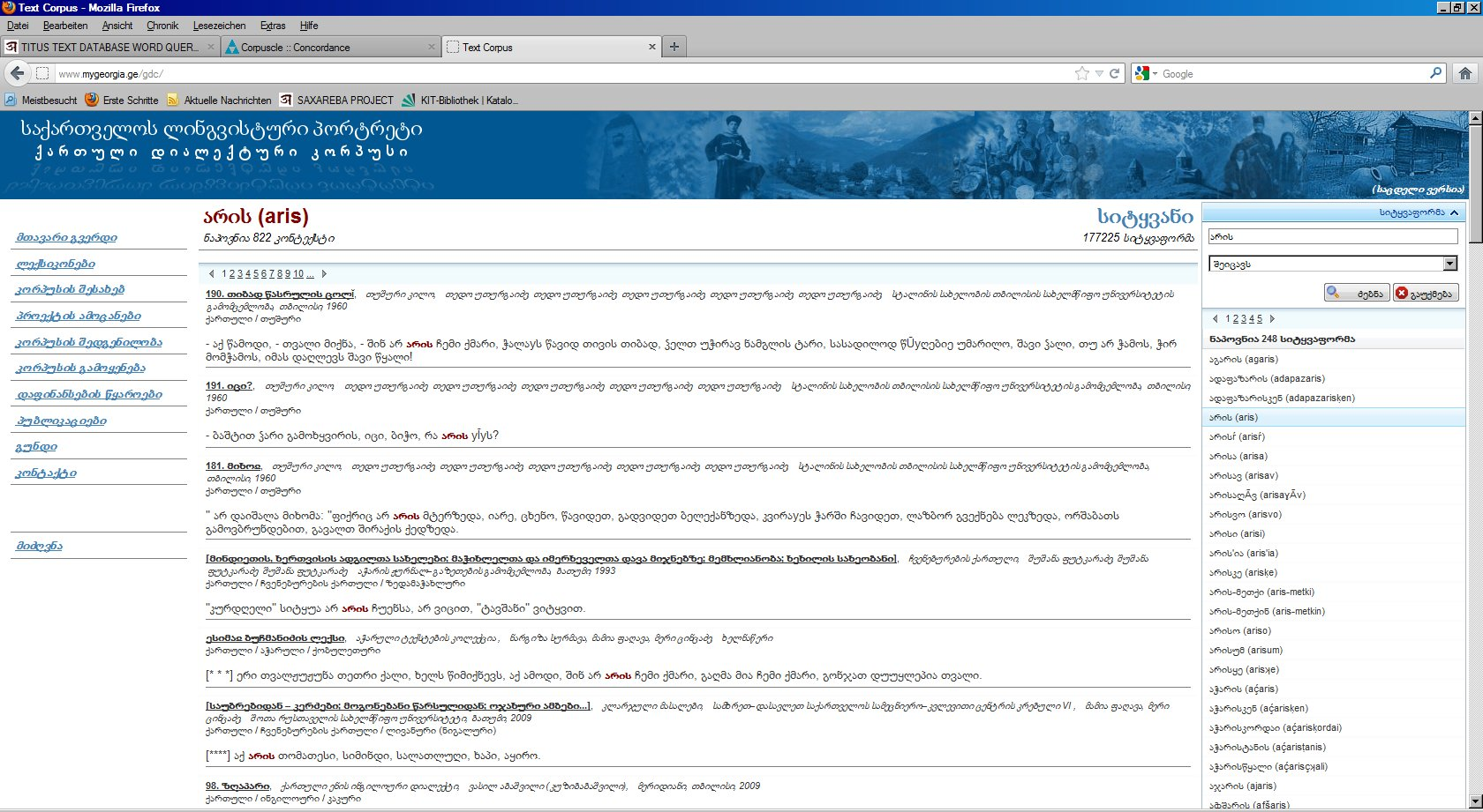 ქართული დიალექტური კორპუსი